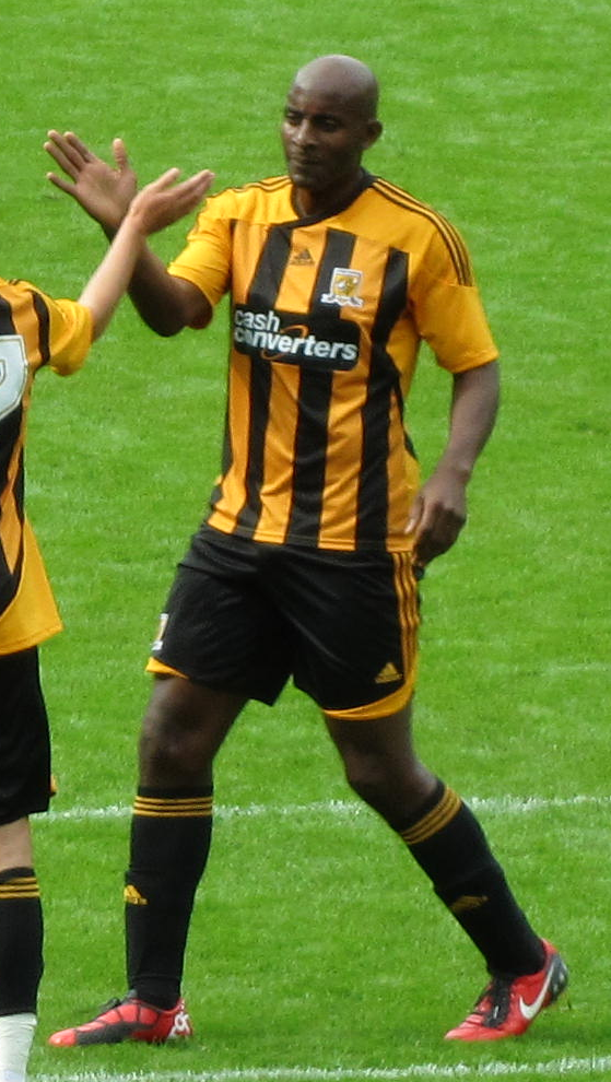 Dele Adebola